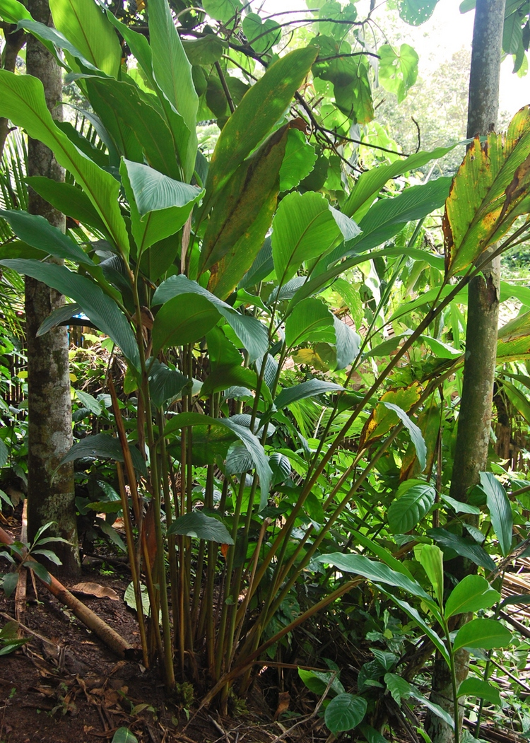 Amomum cf. dealbatum, habits. From Sukabumi, West Java.